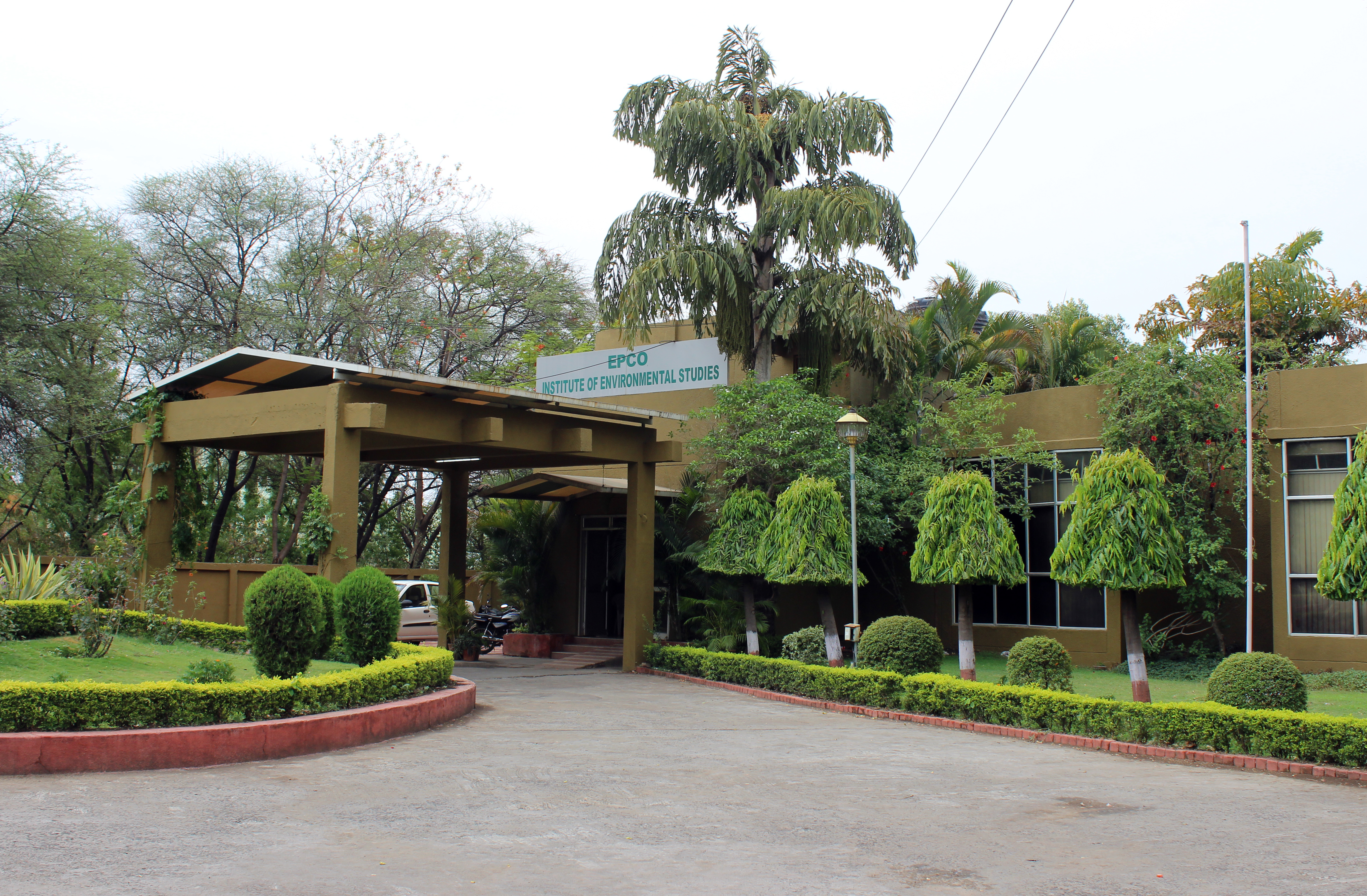 EPCO-IES Bhopal